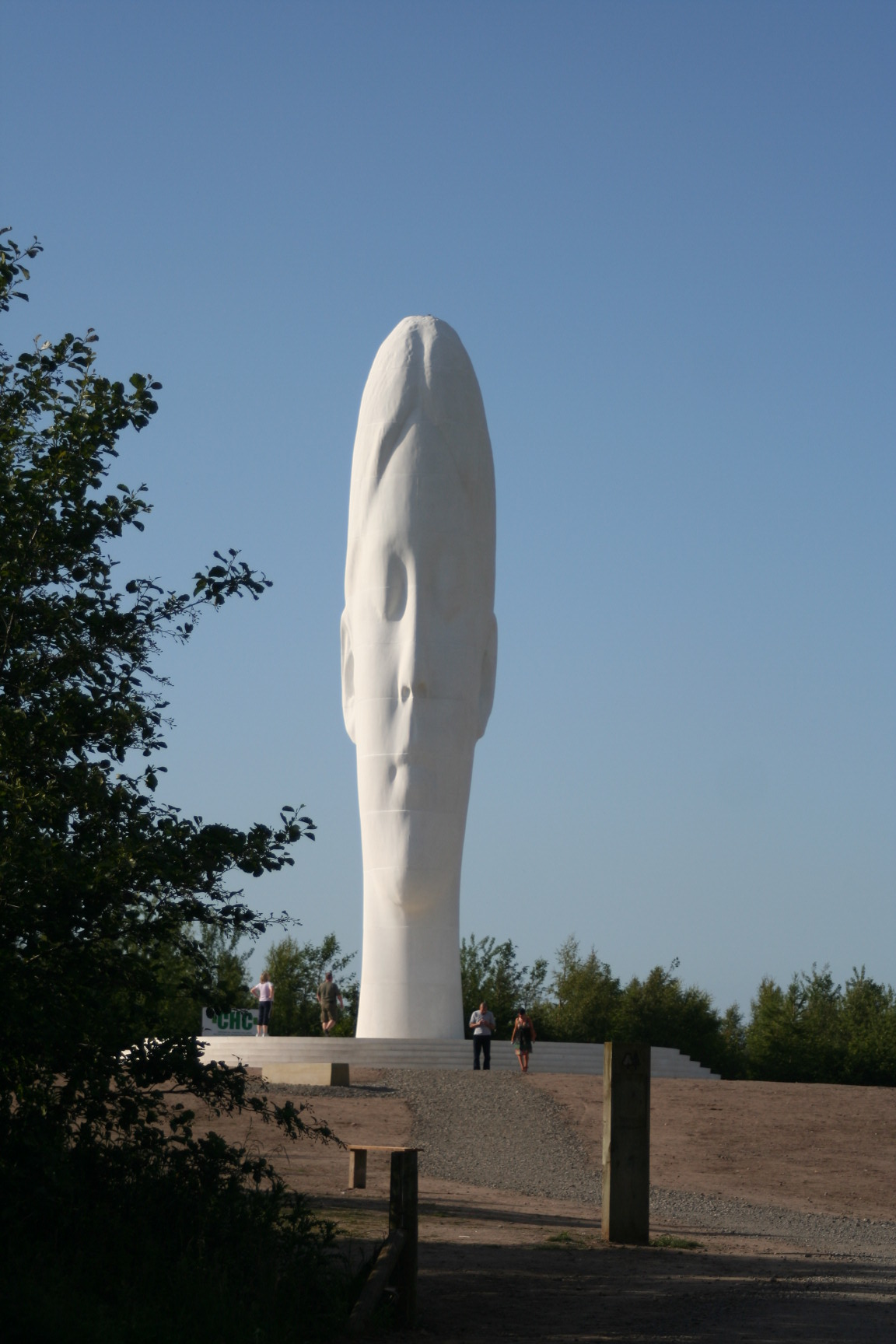 View of the Dream taken from the path leading to the sculpture facing away from the M62.